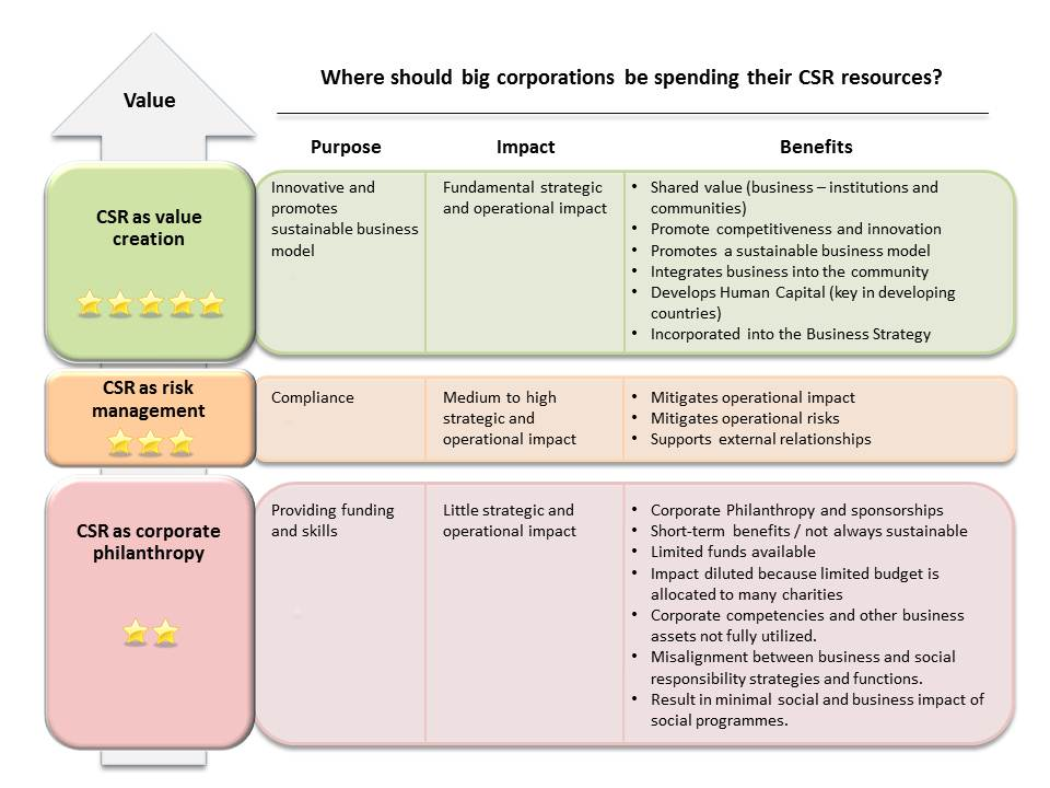 CSR approaches CSR framework